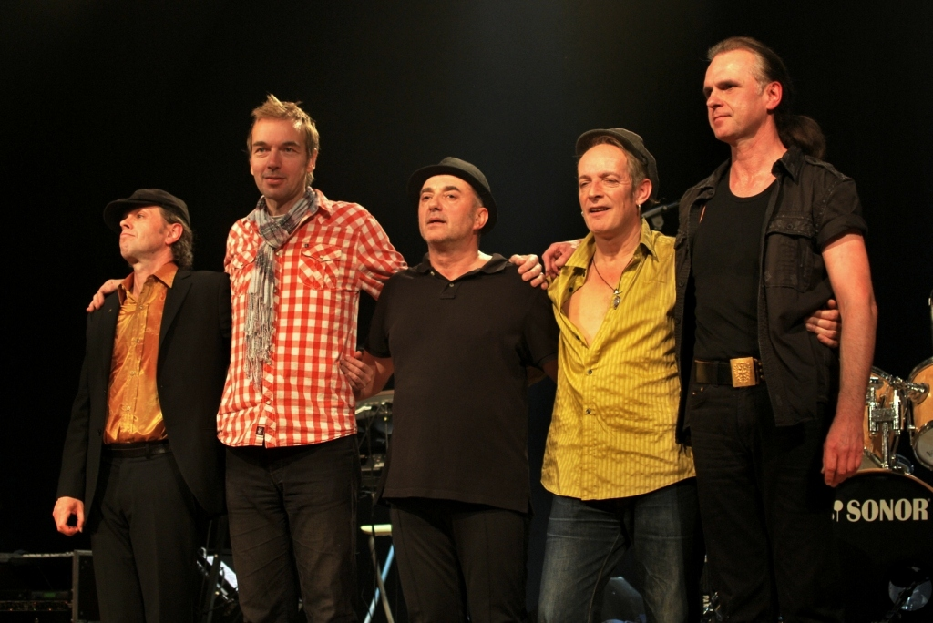 Pankow (German Band), Germany, Concert 2011-11-04 in Schwedt, LTR Jürgen Ehle, Kulle Dziuk, André Herzberg, Ingo York, Stefan Dohanetz